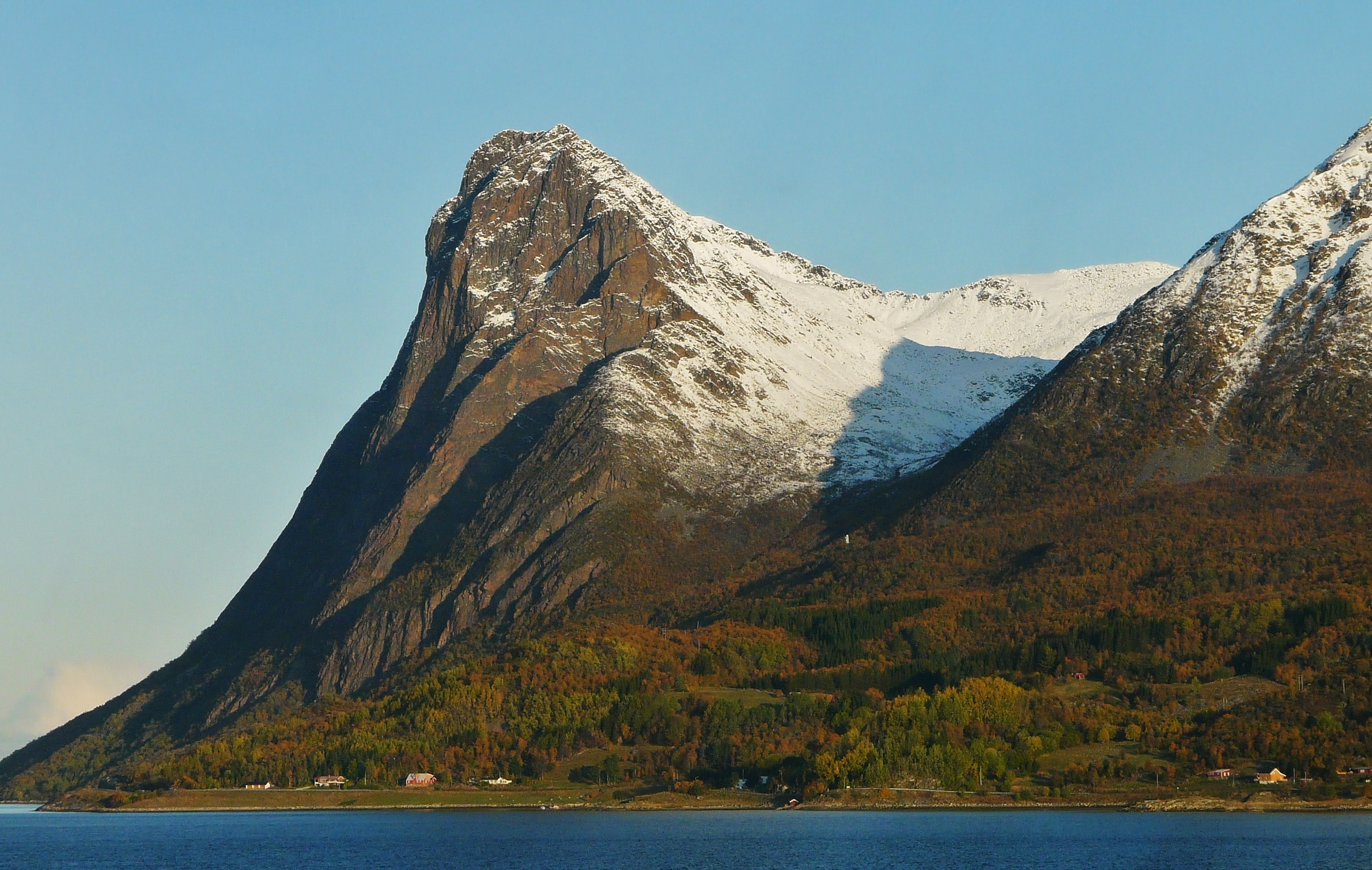 Toppen (759 m) as seen from the southeast near Harstad from a Hurtigruten ship (M/S Polarlys) in 2009 October.